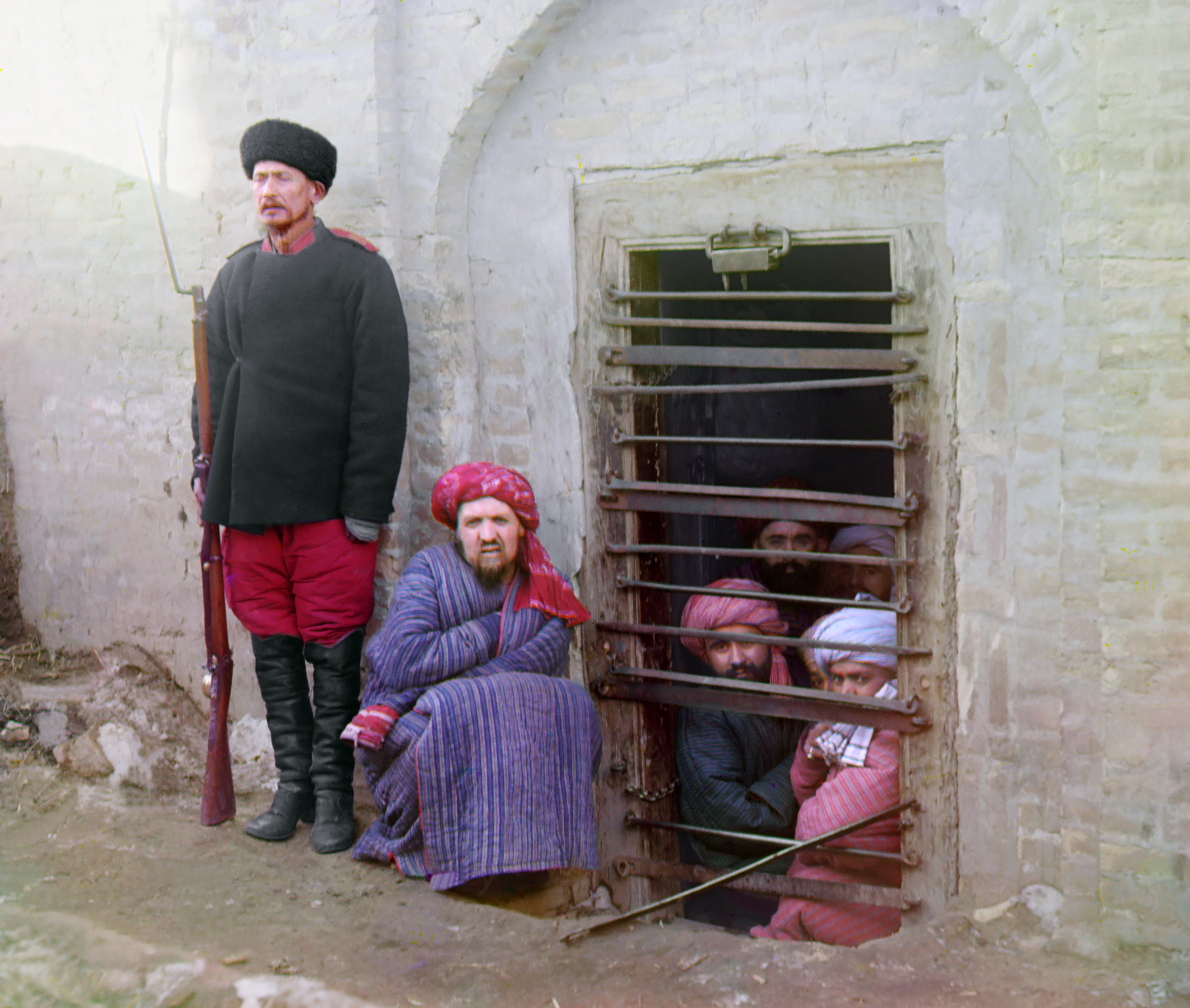 Zindan (traditional Central Asian prison), with inmates looking out through the bars and a guard with Russian rifle, uniform, and boots, likely in Bukhara, Uzebkistan].